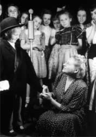 "Aunt Jo and her little gang" around the microphone of Radio Frankfurt (1946–1949, later Hessischer Rundfunk/Hessian Broadcasting System) in Frankfurt am Main, Hesse, Germany. In front on the right: Josefine Klee-Helmdach, Head of Children's programme between 1946 and 1968. The picture may be taken in the second half of the 1940s.